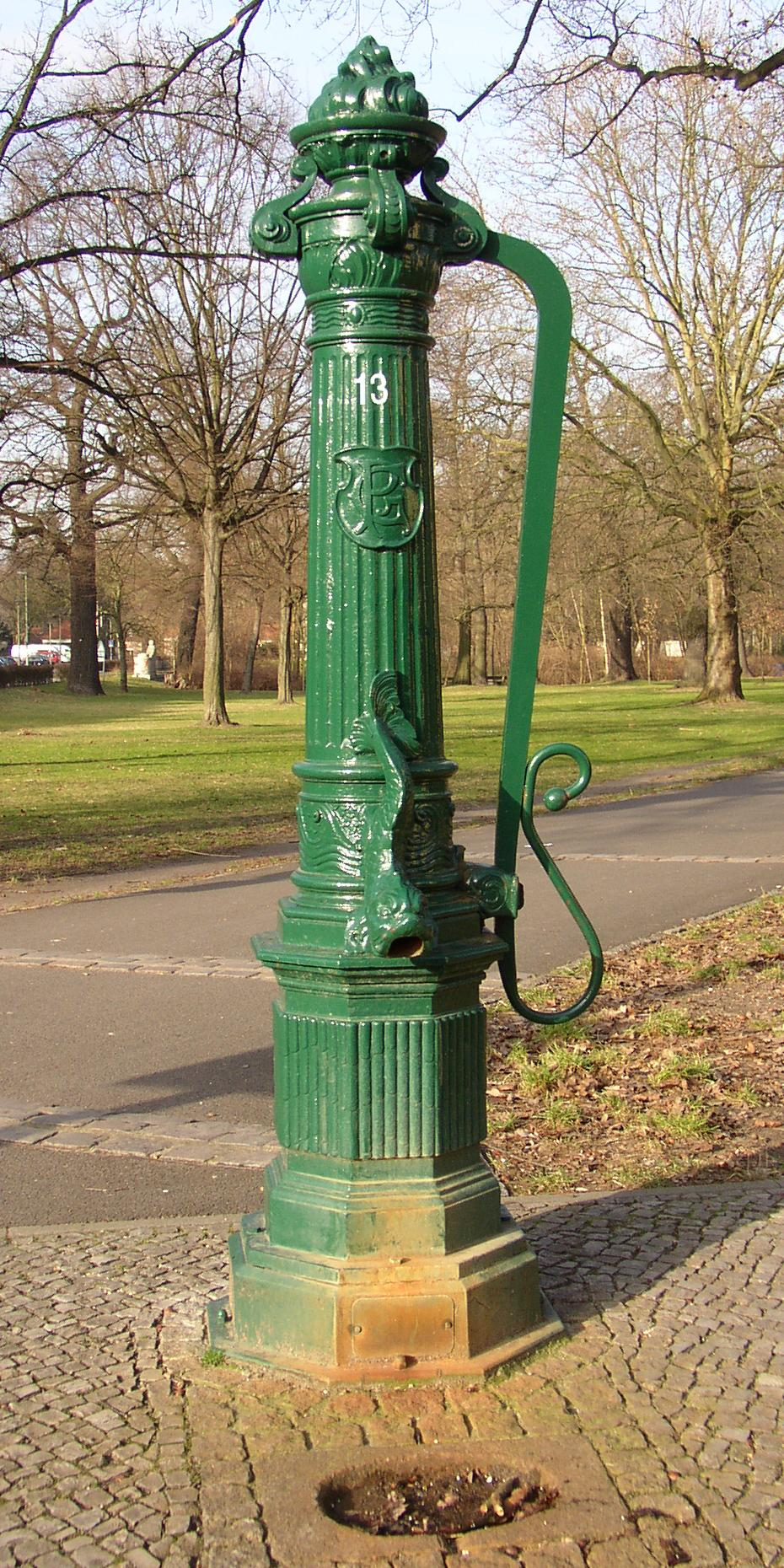 Manual Pump in Berlin-Pankow, Germany